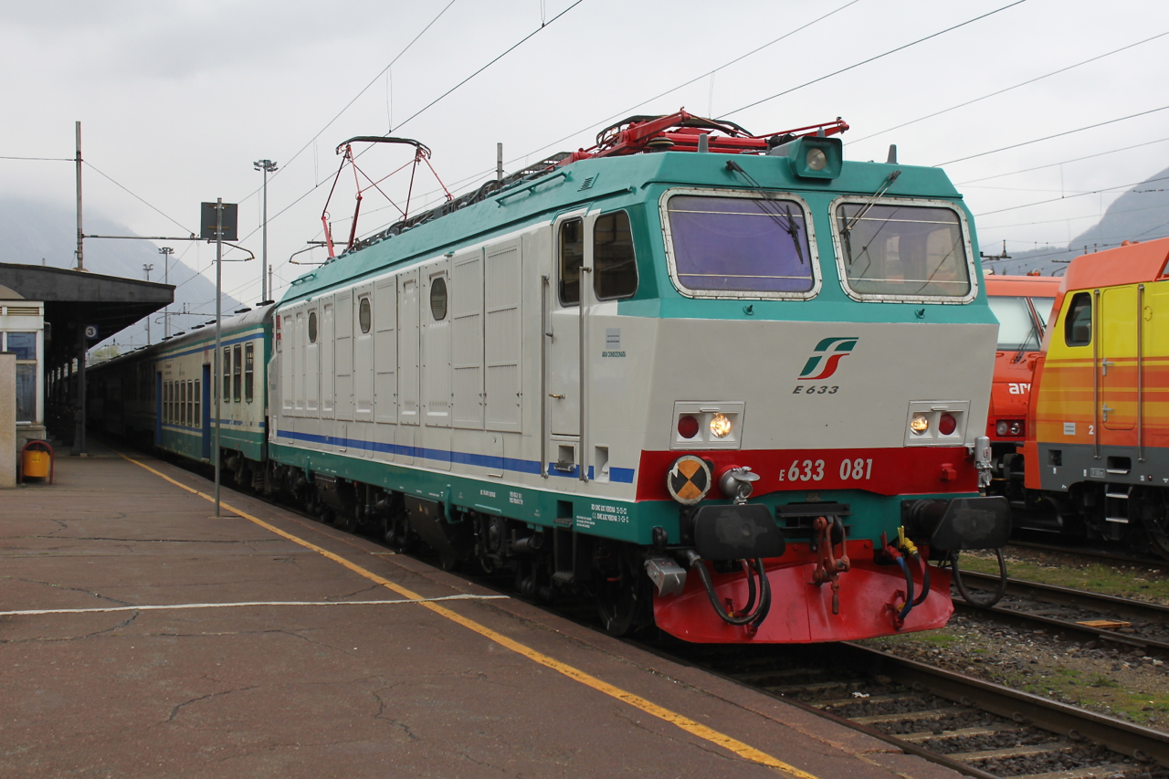 FS E633.081 at Domodossola.